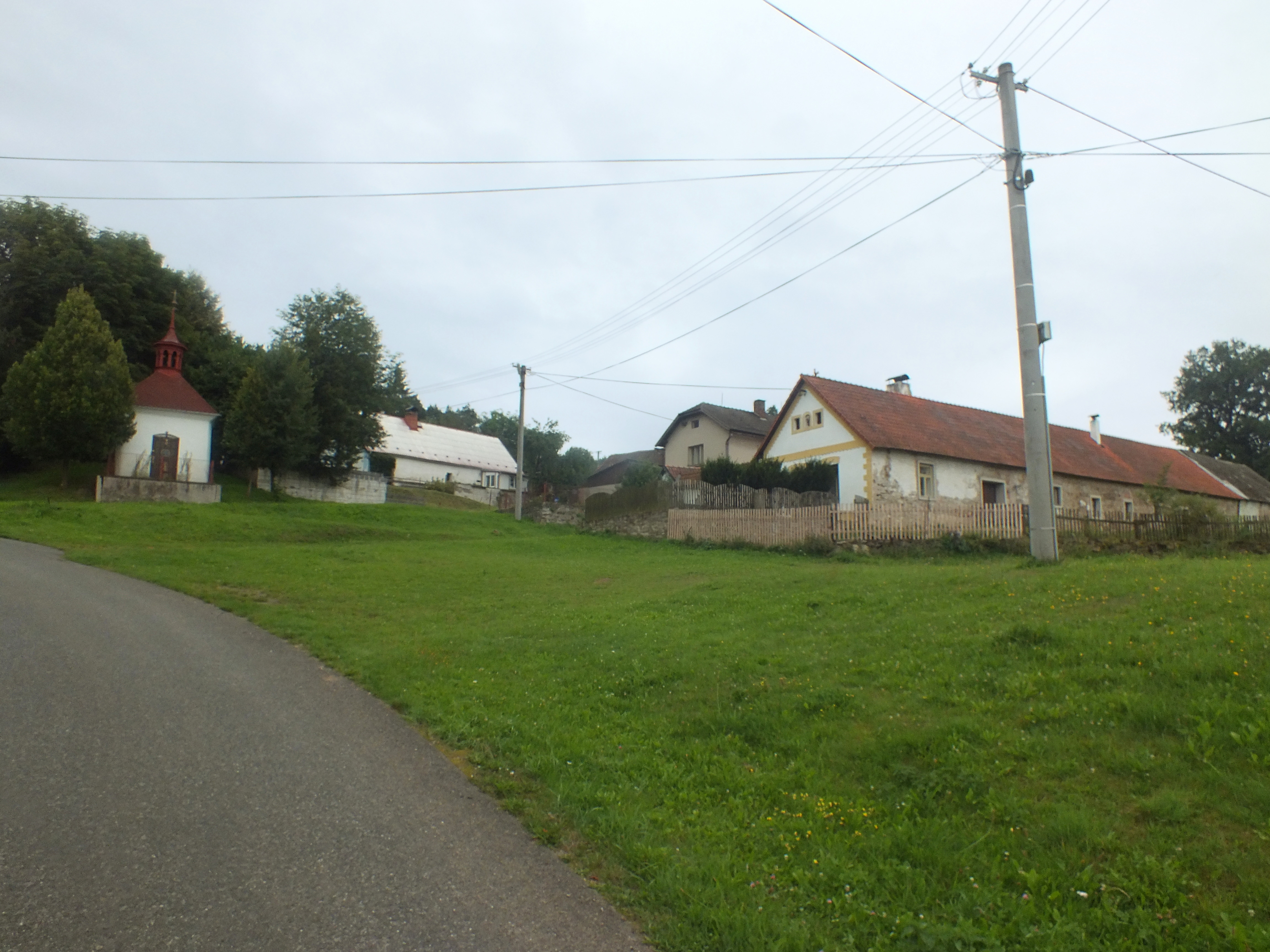 Skrýšov - the south-eastern corner of the square